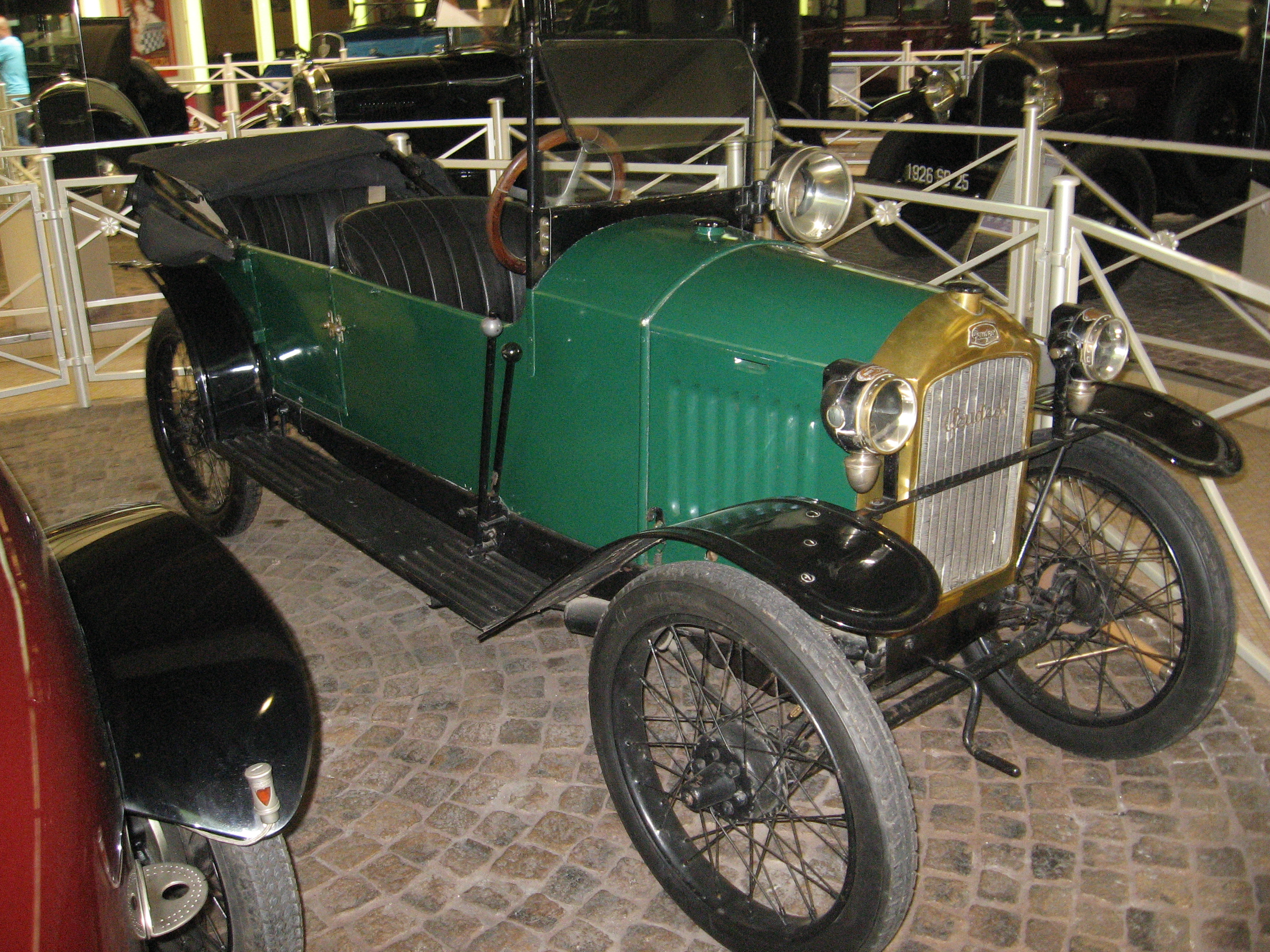 Subject: Peugeot Type 161 Author: Luc106 Date:April 26th, 2011 Place/Country: Musée de l'Aventure Peugeot, Sochaux (France) I release all rights in the public domain.